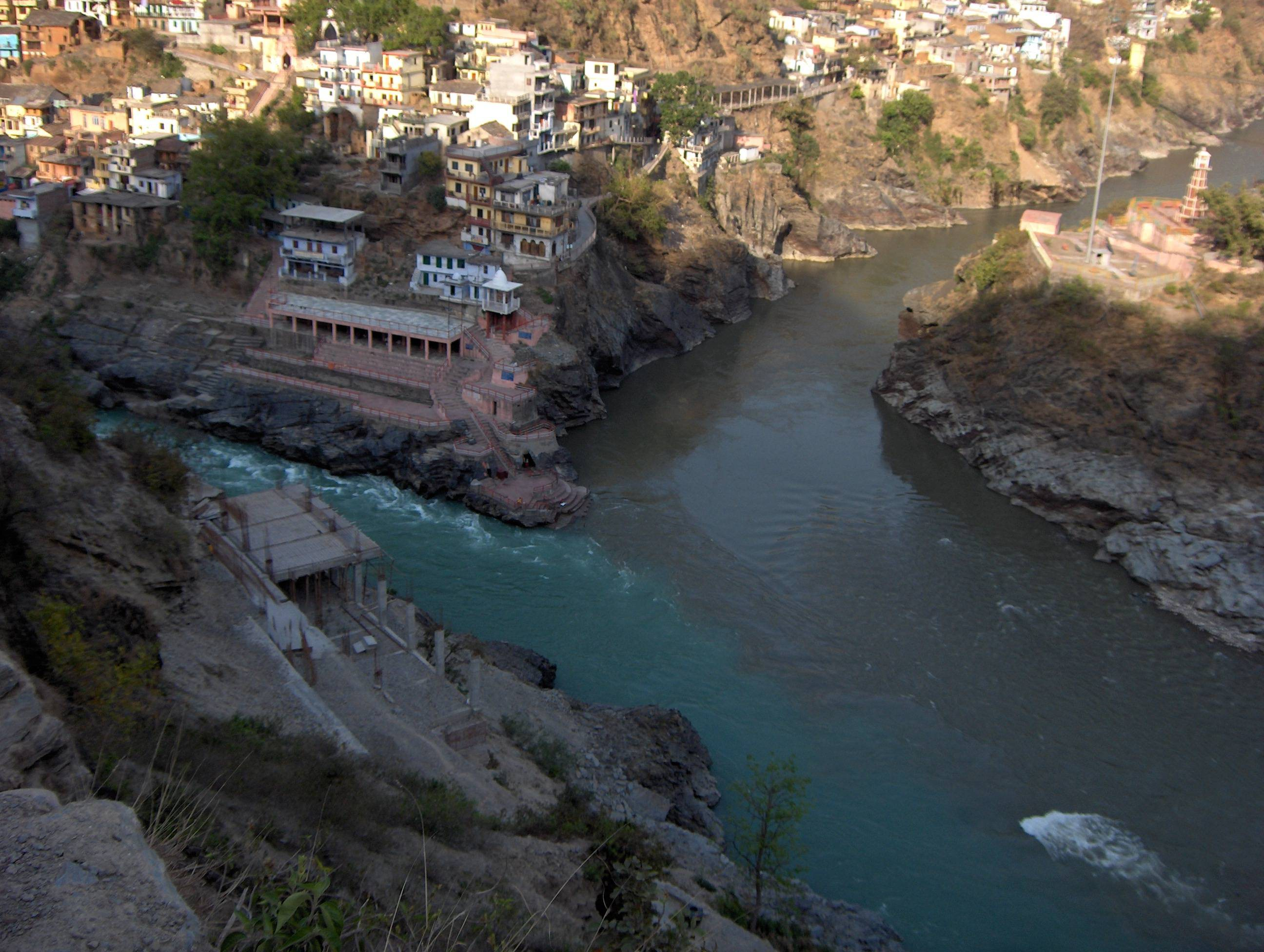 Bhagirathi (left) meets Alaknanda (right) to form the river Alaknanda at Devprayag